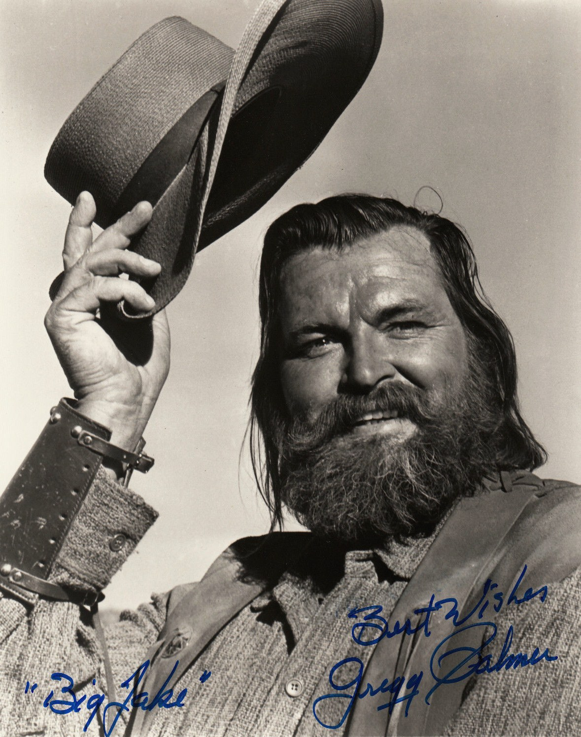 Gregg Palmer in Big Jake - publicity still signed (cropped)